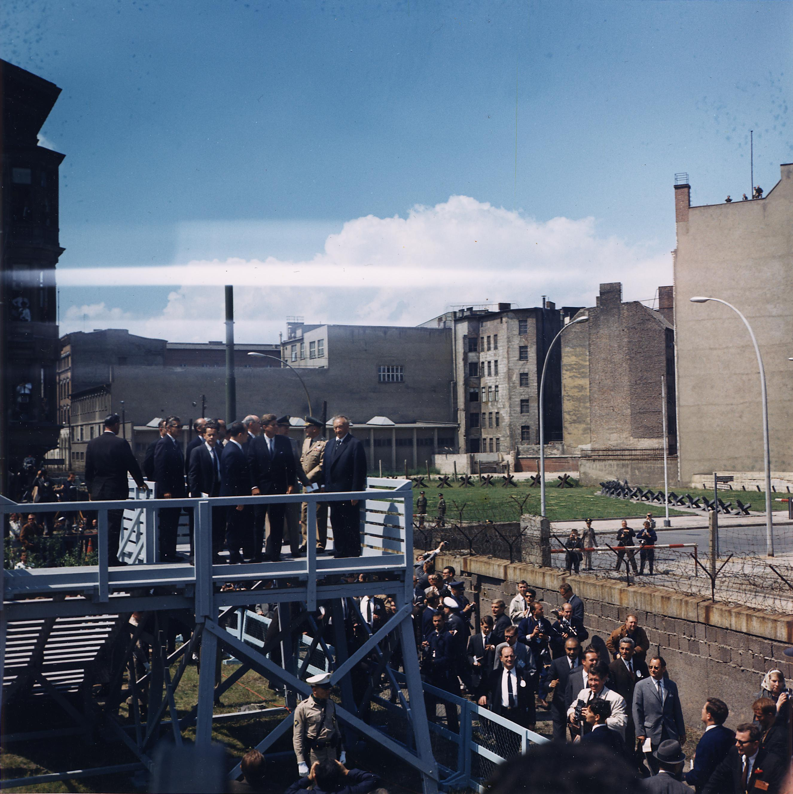 President Kennedy at the Berlin Wall, 26 June 1963. President John F. Kennedy views East Berlin, East Germany (Democratic Republic), from an elevated platform at Checkpoint Charlie along the Berlin Wall in West Berlin, West Germany (Federal Republic). Also pictured: Chancellor of West Germany, Konrad Adenauer; Major General James H. Polk; Military Aide to President Kennedy, General Chester V. Clifton; Major General Frederick O. Hartel; U.S. Secretary of State, Dean Rusk; Minister for All-German Affairs, Dr. Rainer Barzel; White House Secret Service agents, Gerald A. “Jerry” Behn and Roy Kellerman.